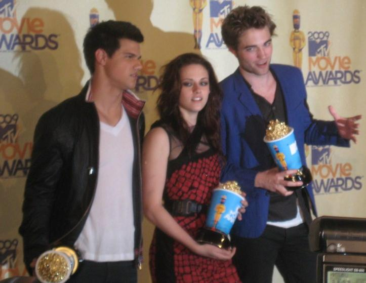 Kristen Stewart, Robert Pattinson, and Taylor Lautner attend the 2009 MTV Movie Awards Licensed under a creative commons share-alike license. Use freely, but give credit Philip Nelson, Live Streaming Expert and link to